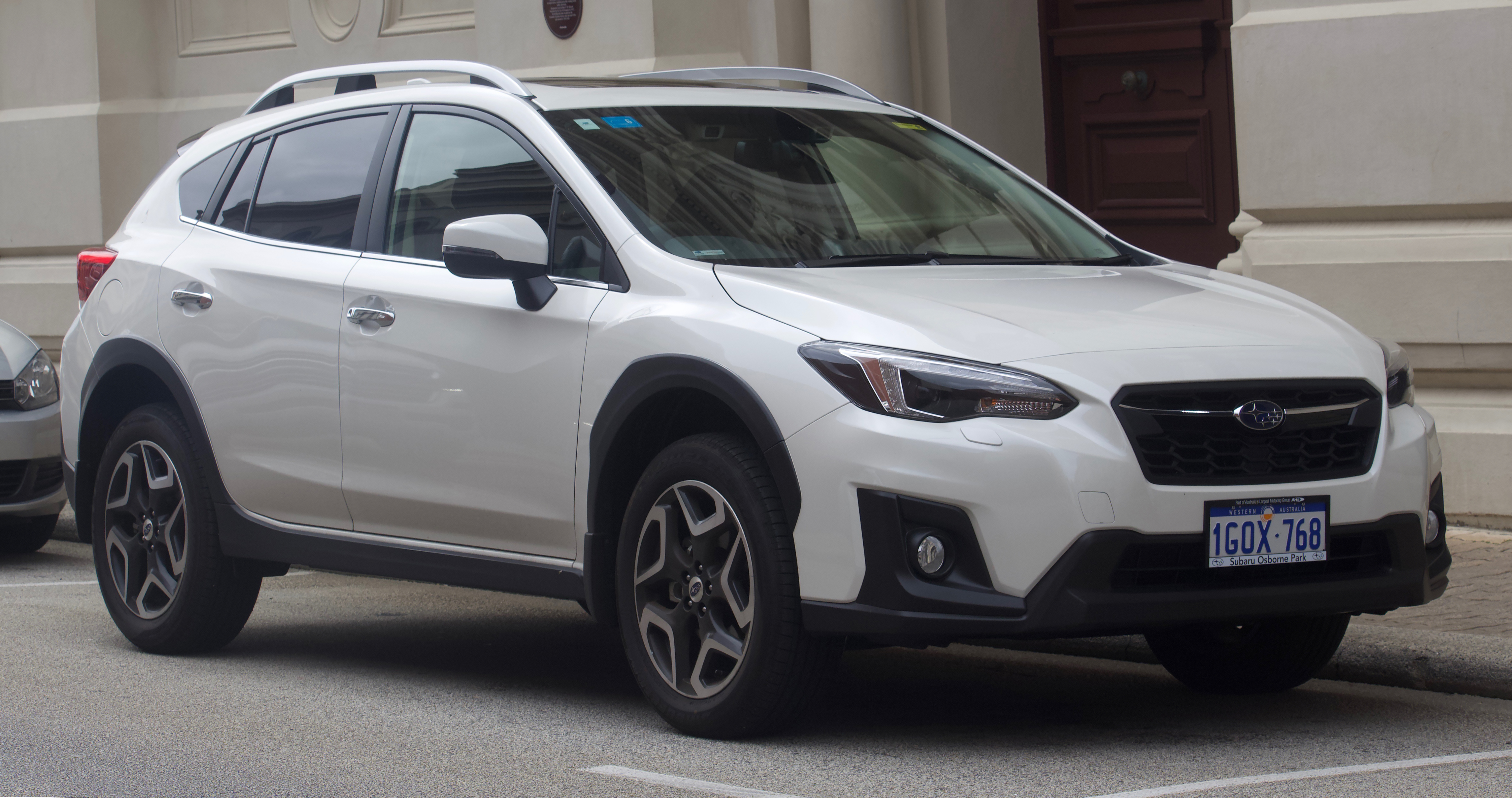 2018 Subaru XV (GT7) 2.0i-S wagon. Photographed in Fremantle, Western Australia, Australia.